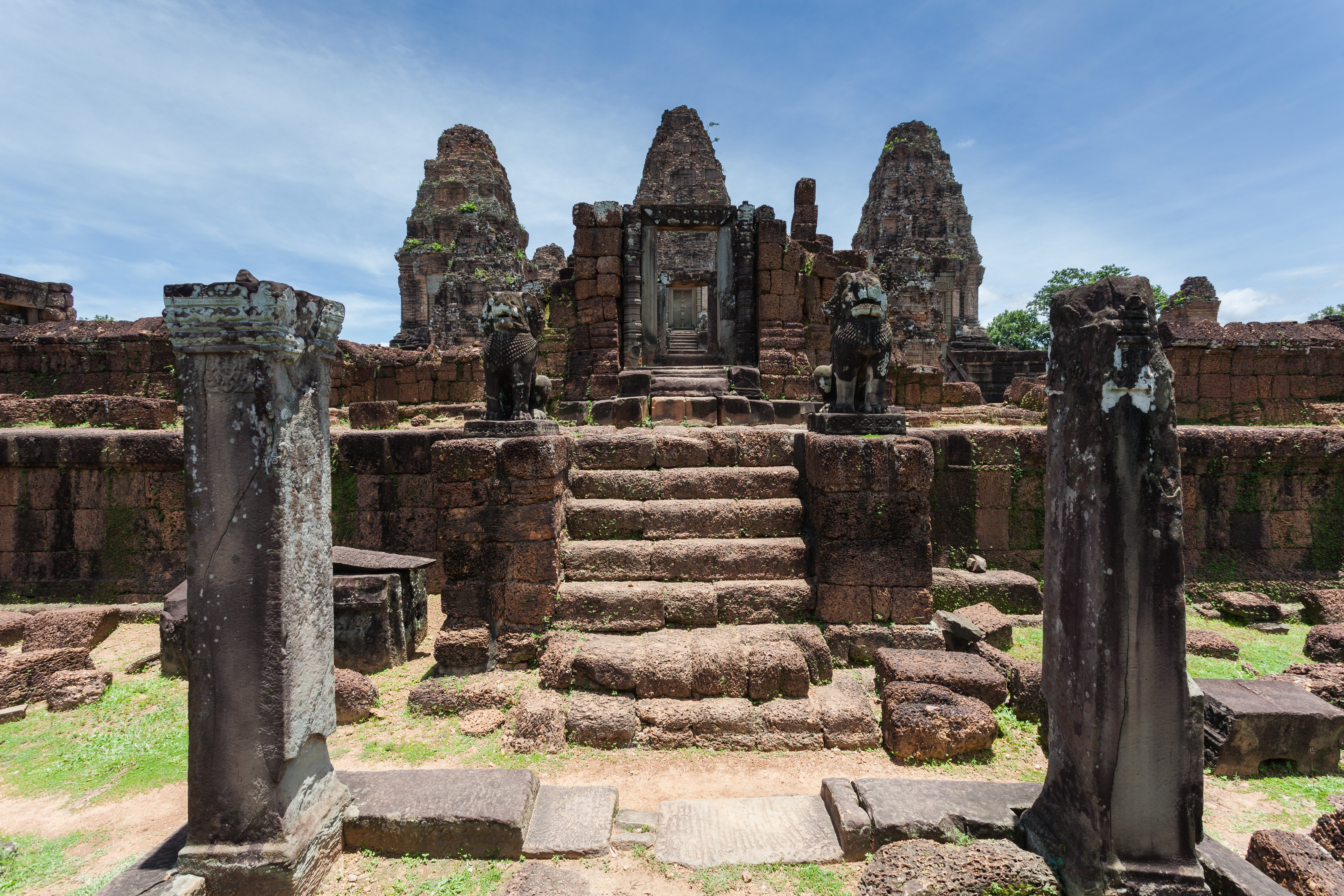 Mebon Oriental, Angkor, Cambodia